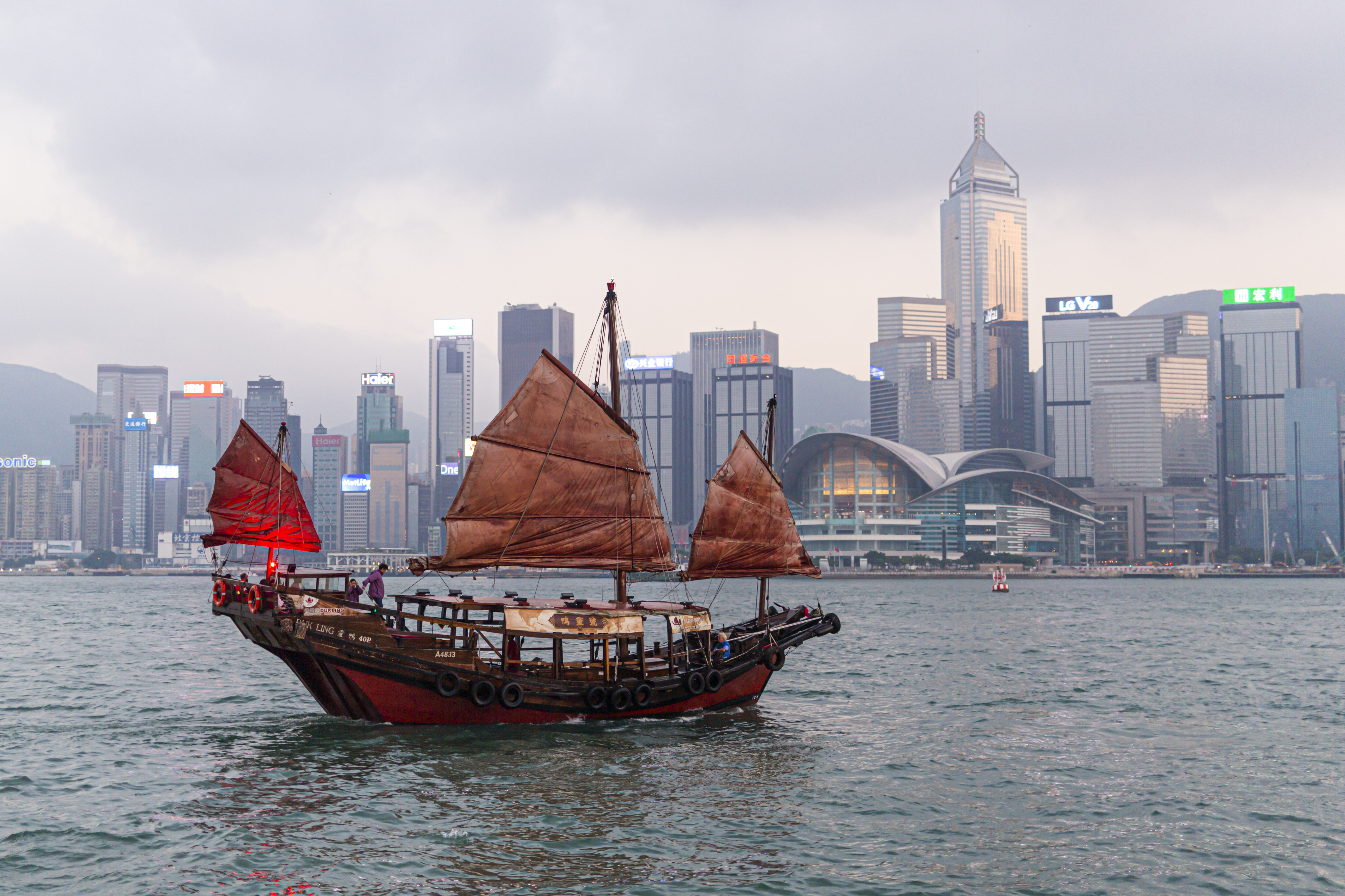 Duk Ling (ship), Hong Kong